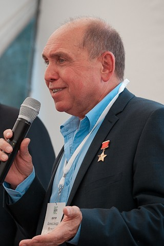 Alexander Volkov, cosmonaut, Hero of the Soviet Union. Geek Picnic 2013